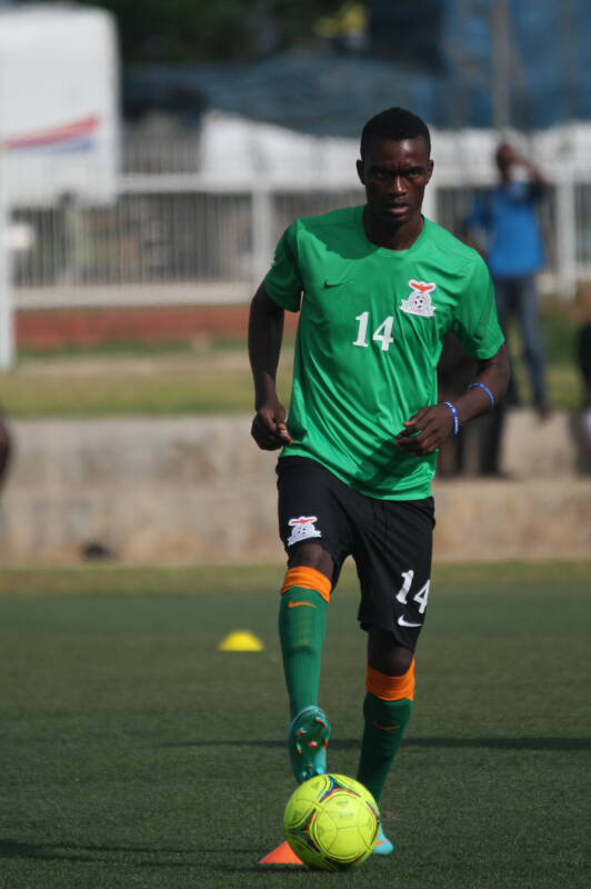 Aaron Katebe training with Zambia in the build-up to the 2013 African Cup of Nations.